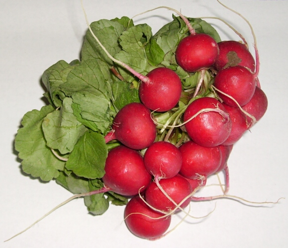 Radieschen, radish, radis rose, rábano, rädisa